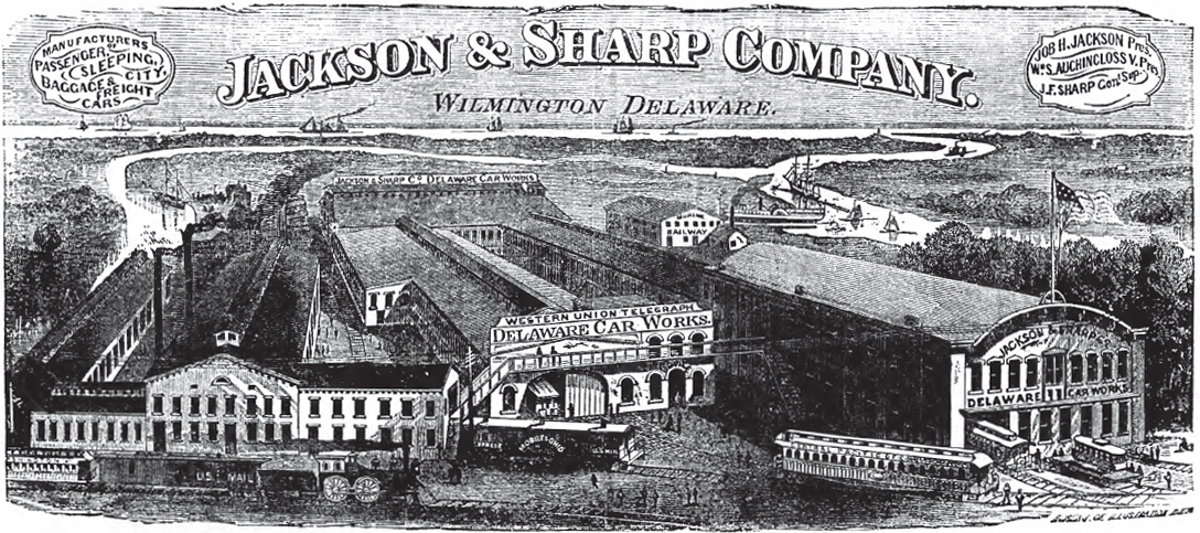 Illustration of Jackson and Sharp Company plant at Wilmington, Delaware, USA.